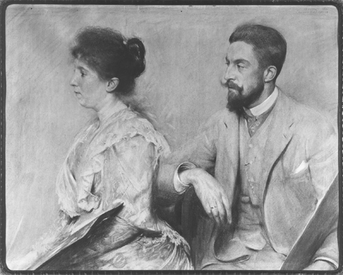 Chalk and pastel on paper. Inv. 4720